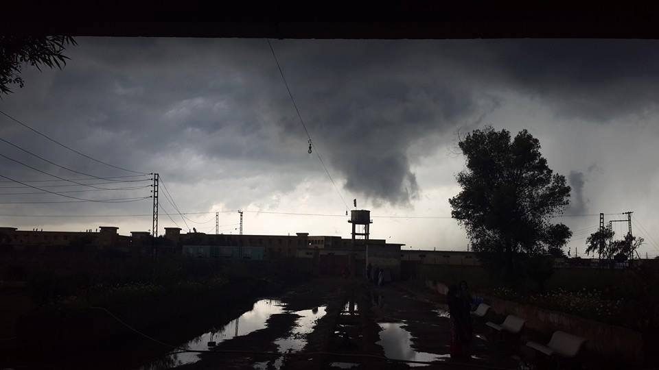 A beautiful picture of supercell thunderstorm in Larkana on 14th March 2015.